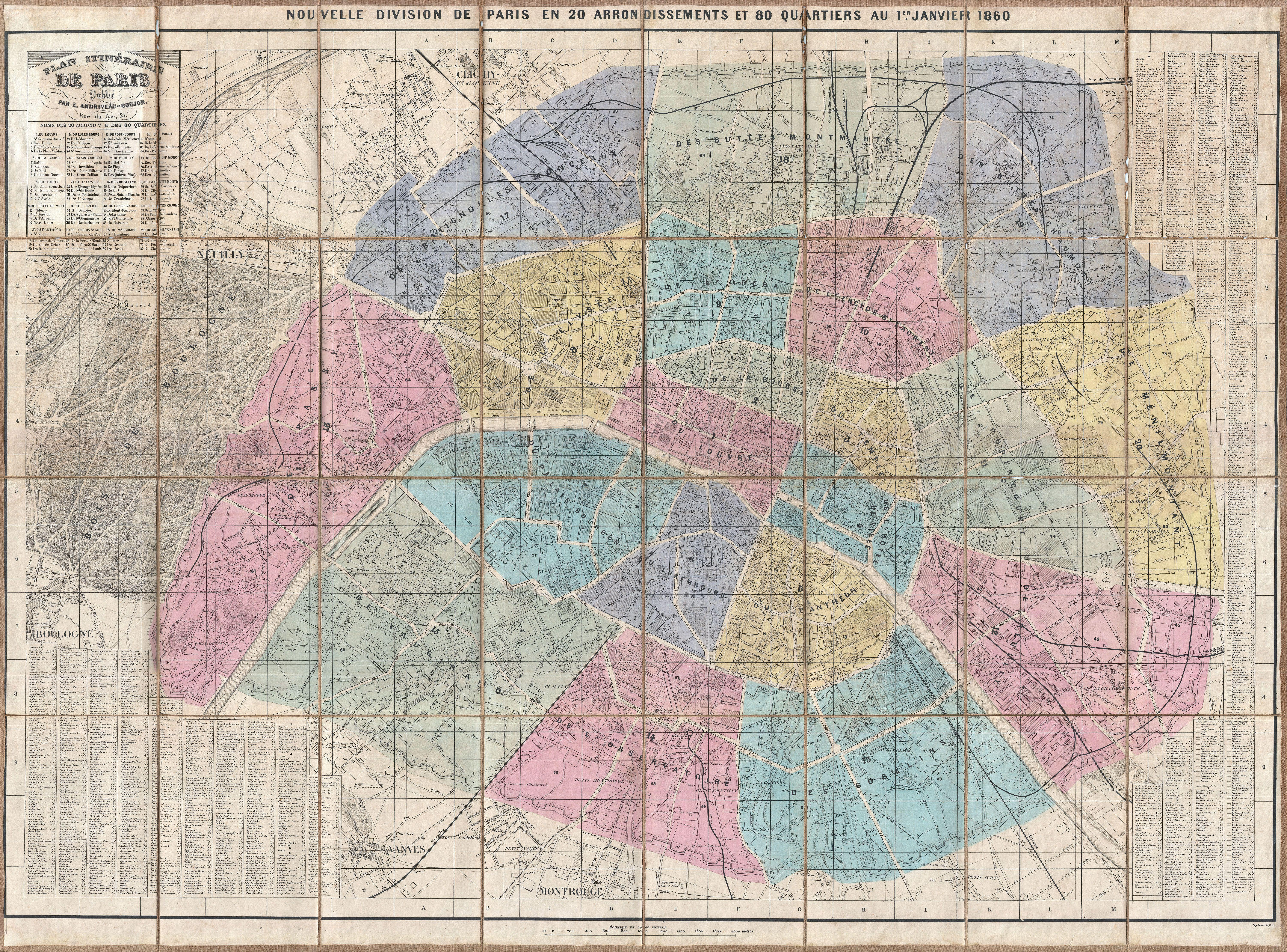 This is an extremely attractive 1860 pocket plan or case map of Paris, France by the French map publisher Andriveau-Goujon. Covers central Paris as it appeared following the city's historic 1860 expansion from 12 to 20 Arrondissements. Detailed to the level of individual buildings with fortifications, palaces, churches, roads, railroads, rivers, forests and gardens noted. Shows the elaborate forest gardens surrounding Paris, in particular the Bois de Boulogne. A table in the upper left quadrant details the city's 80 Quartiers - which correspond to number sections on the map. The lower left and right hand portions of the map are dominated by a detailed street index. Dissected and mounted on linen. Comes with original linen binder. One of the largest and most impressive pocket maps of Paris we have come across.